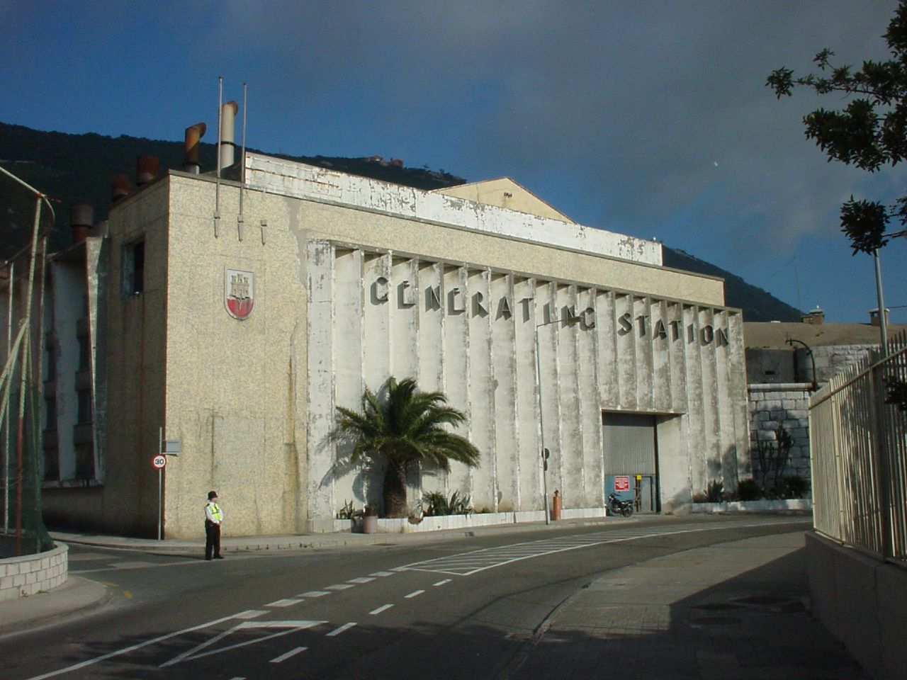 Old Generating Station at King's Bastion, Queensway, Gibraltar. Since demolished.